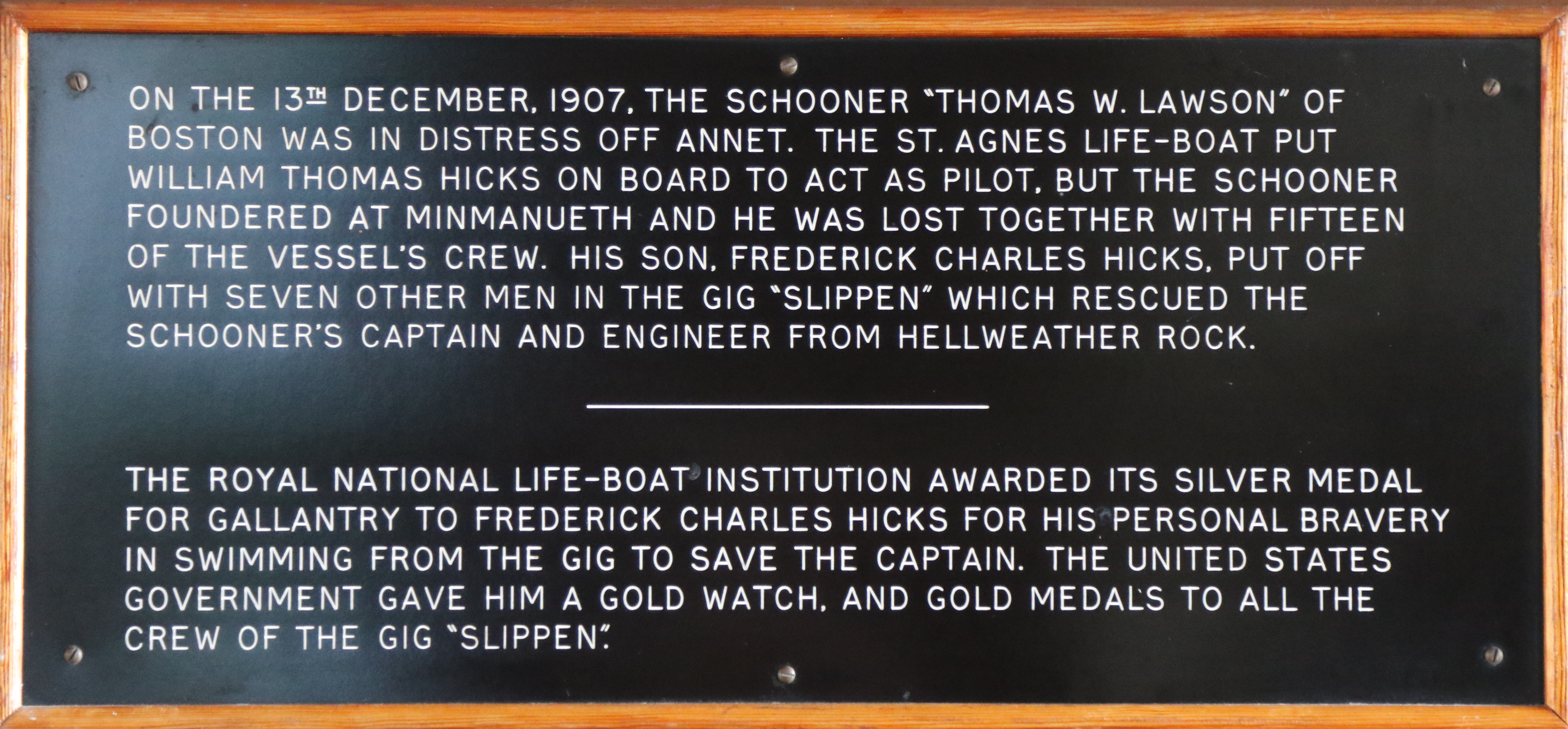 On the wall of St Agnes' Church.